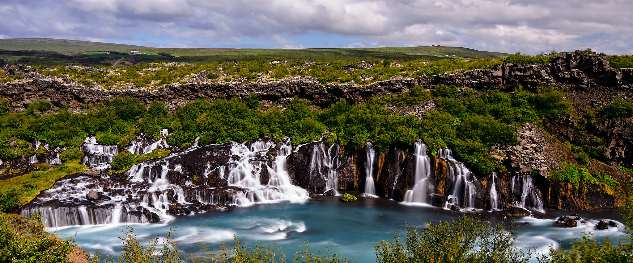 500px provided description: The sky clears up and rays of sunshine cast color and light on Hraunfossar, Iceland, July 2017 [#landscape ,#waterfall ,#panoramic ,#iceland ,#Hraunfossar]